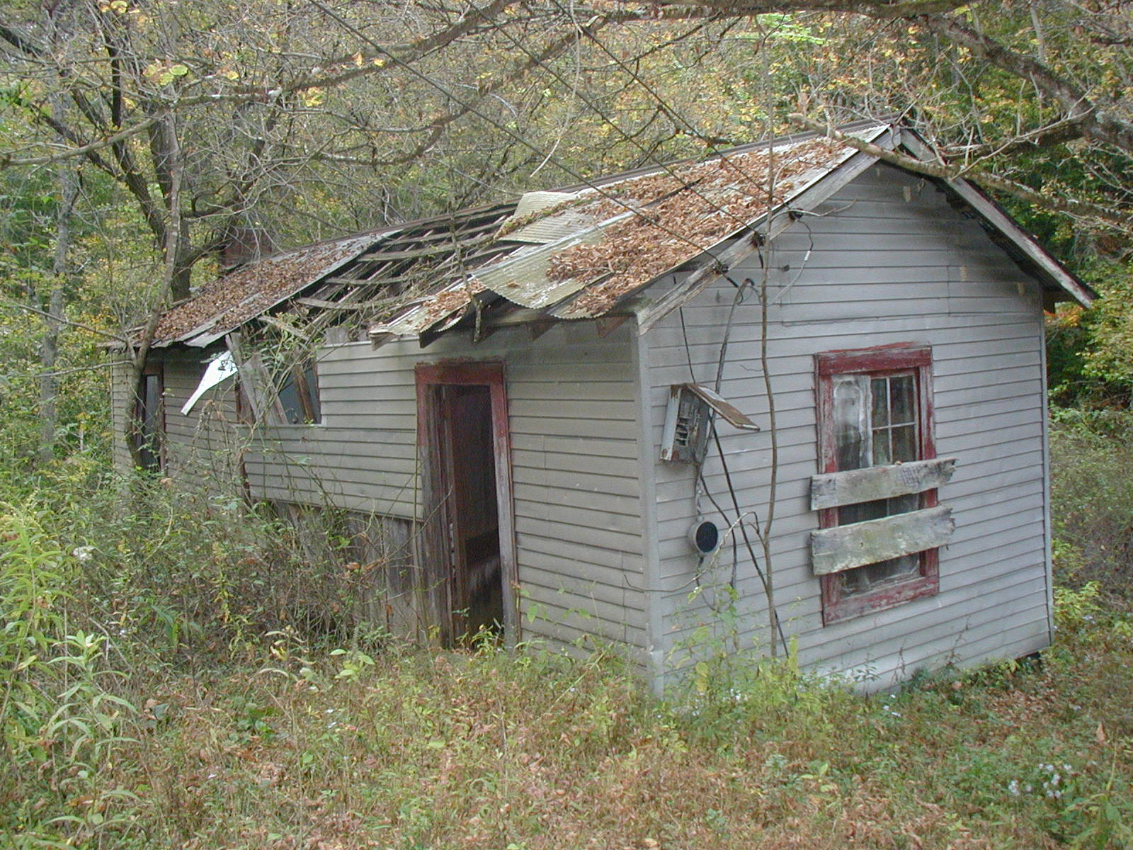 This is the Doc Workman home in 2003. He was murdered here.